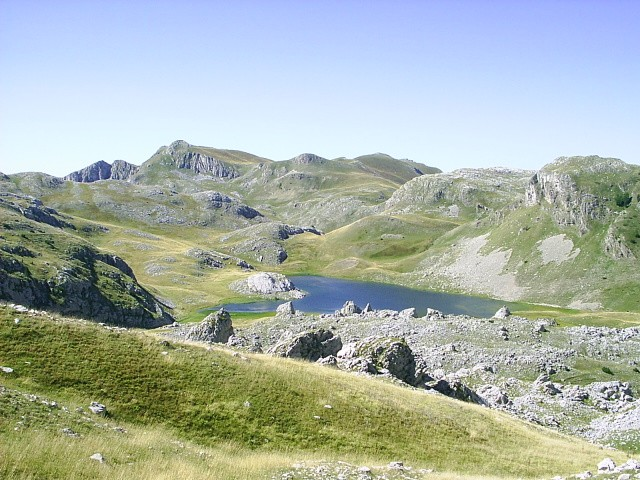 Štirinsko jezero in Zelengora mountains, BiH